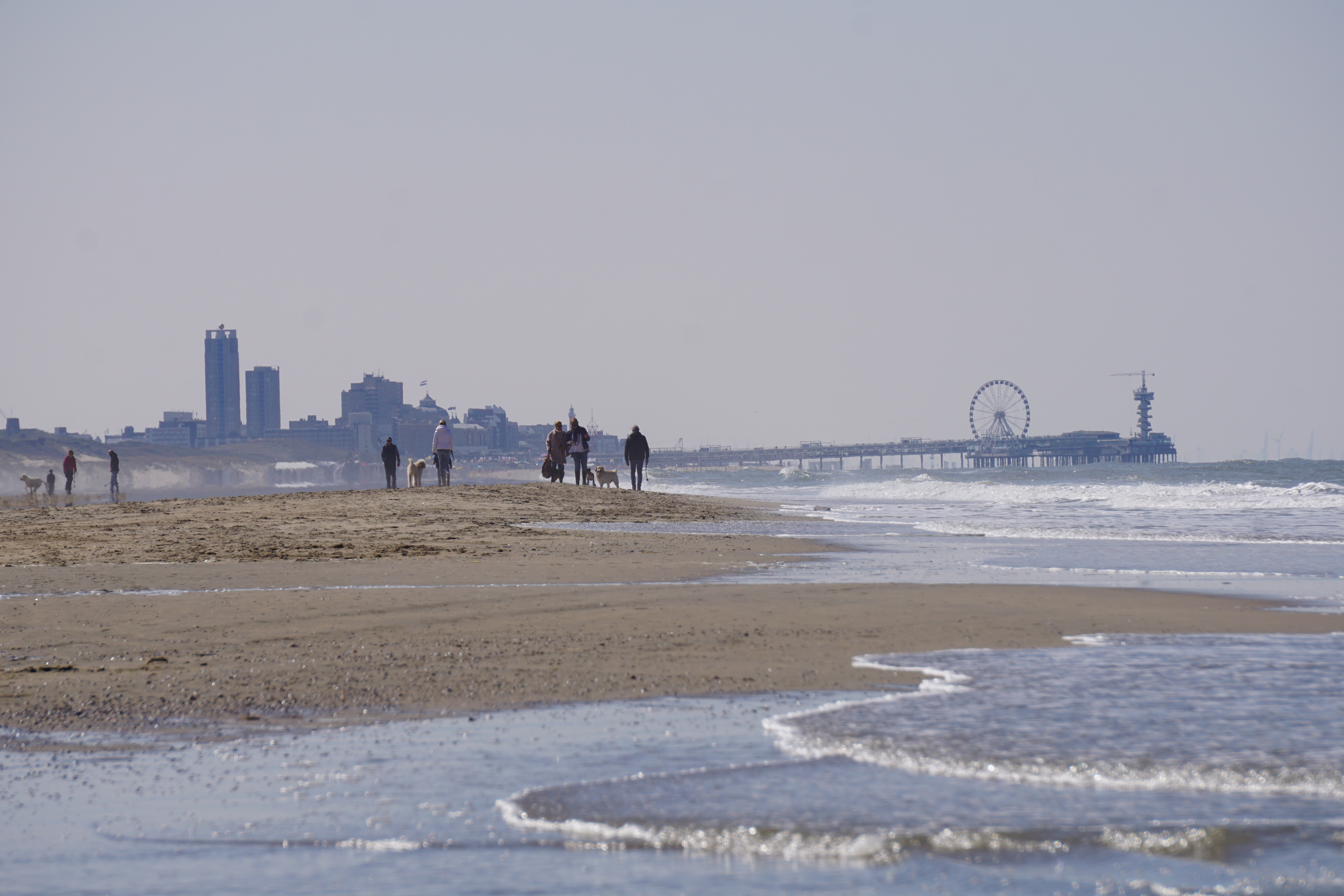 People on the beachside between between Katwijk and Scheveningen